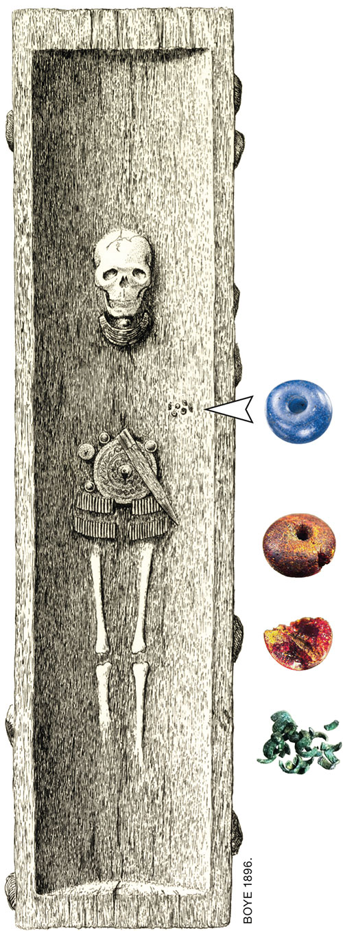 Drawing of a Bronze Age Grave from Ölby by Köge, Sjælland, Denmark. Objects: amber, glass and bronze jewelery and broken sword. 1898 sketch annotated by Jeanette Varberg